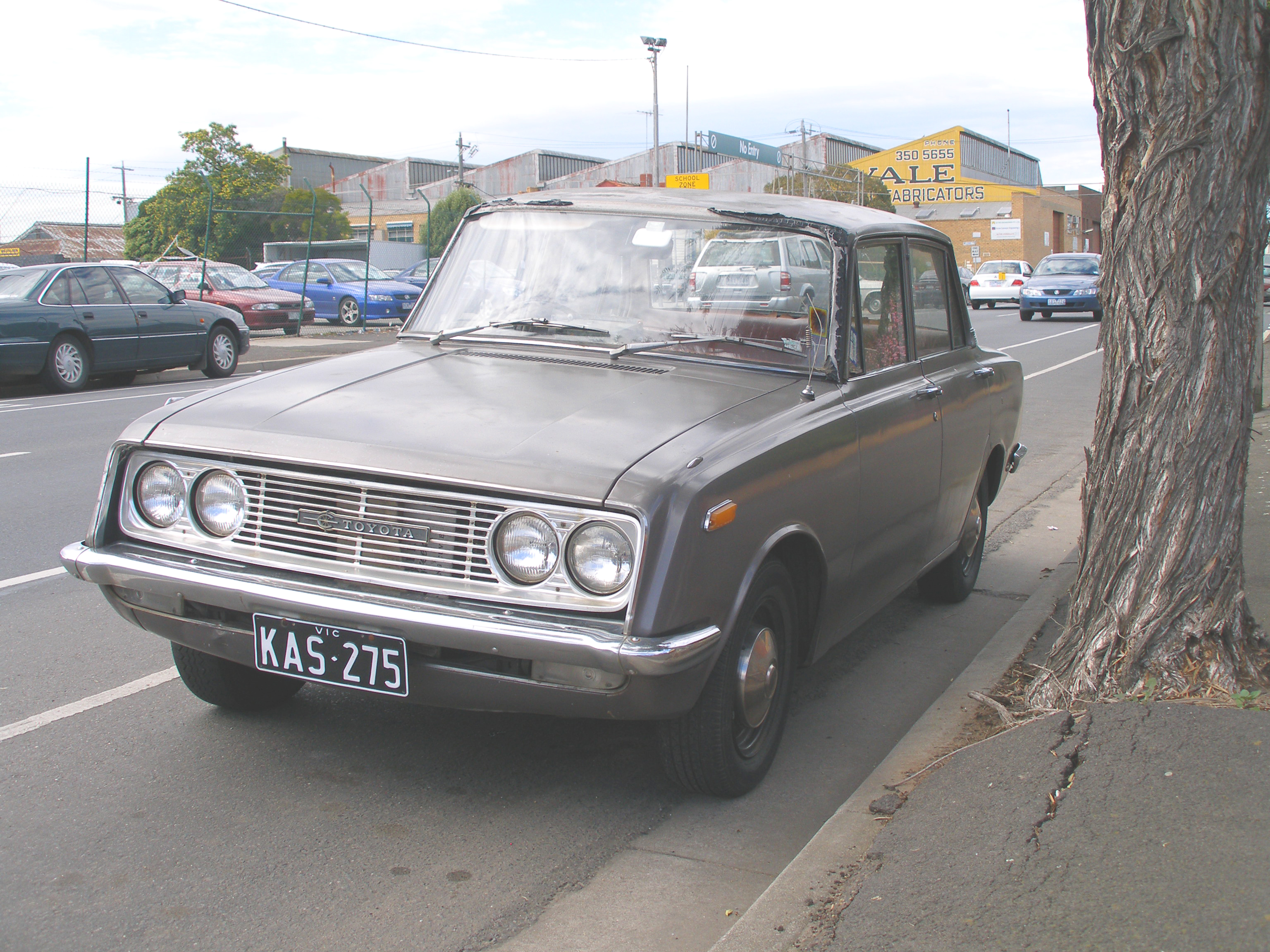 1968 Toyota Corona (T40), photographed in Victoria, Australia. Vehicle registration enquiry results Jurisdiction Victoria Registration KAS275 Chassis code Not available Engine code 2R435542 Compliance date Not available Year of manufacture 1968